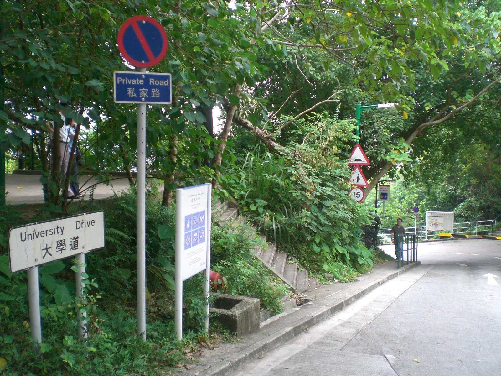 大學道, University Drive, Hong Kong.